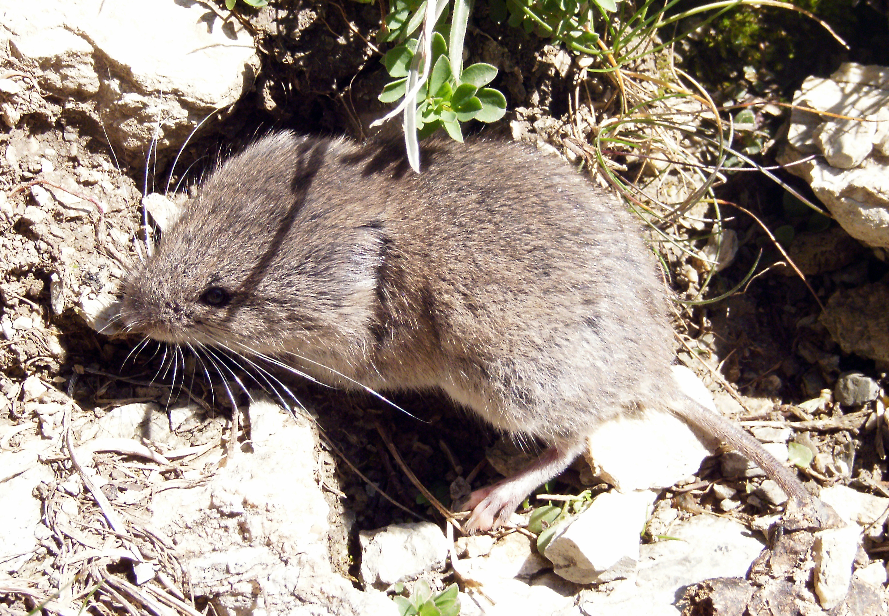 Chionomys nivalis, Wettersteingebirge (Scharnitzspitze), ca. 1100m